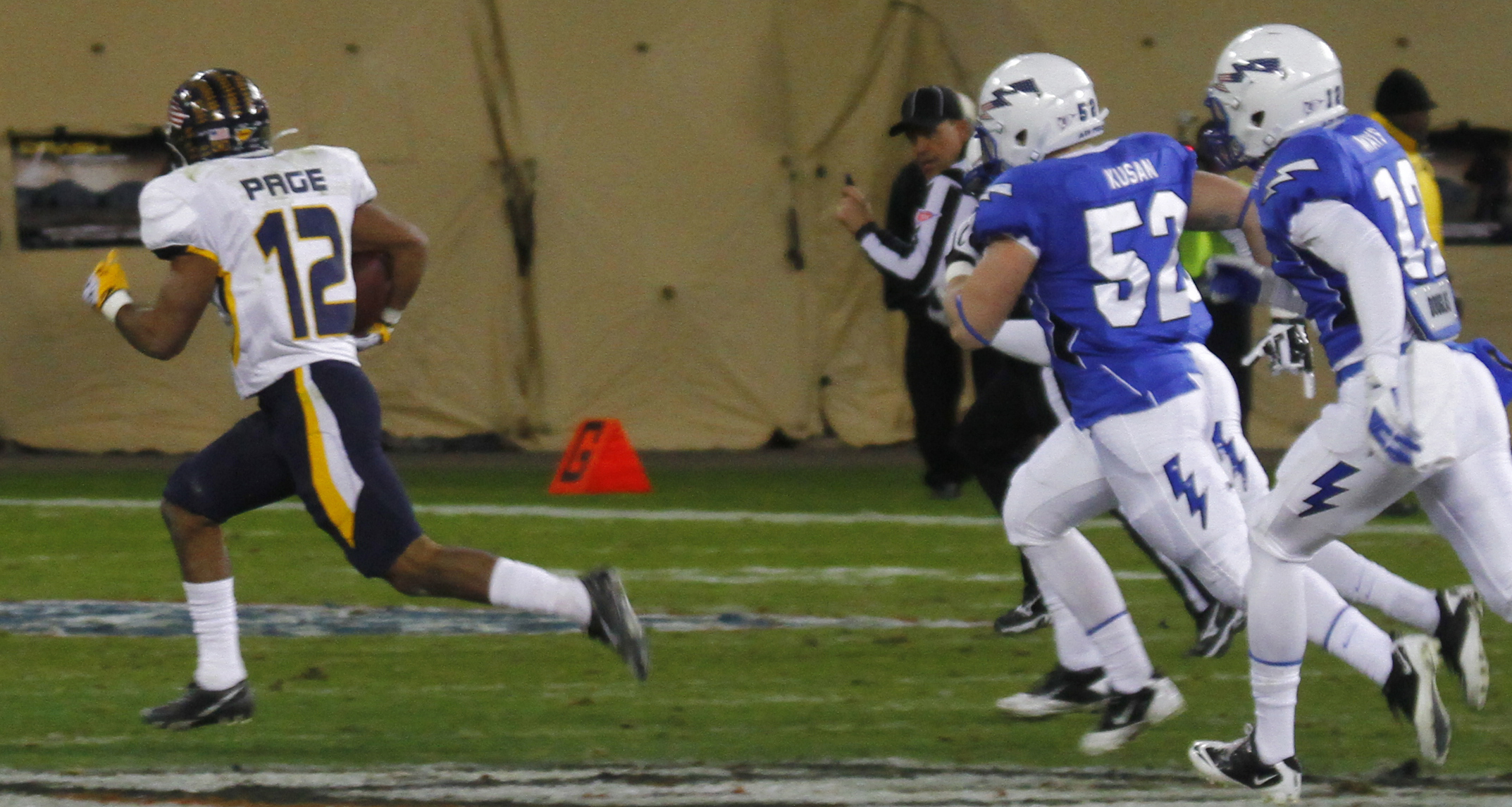 Eric Page of the Toledo Rockets is pursued by Air Force Falcons defenders during the 2011 Military Bowl at RFK Stadium in Washington, D.C.